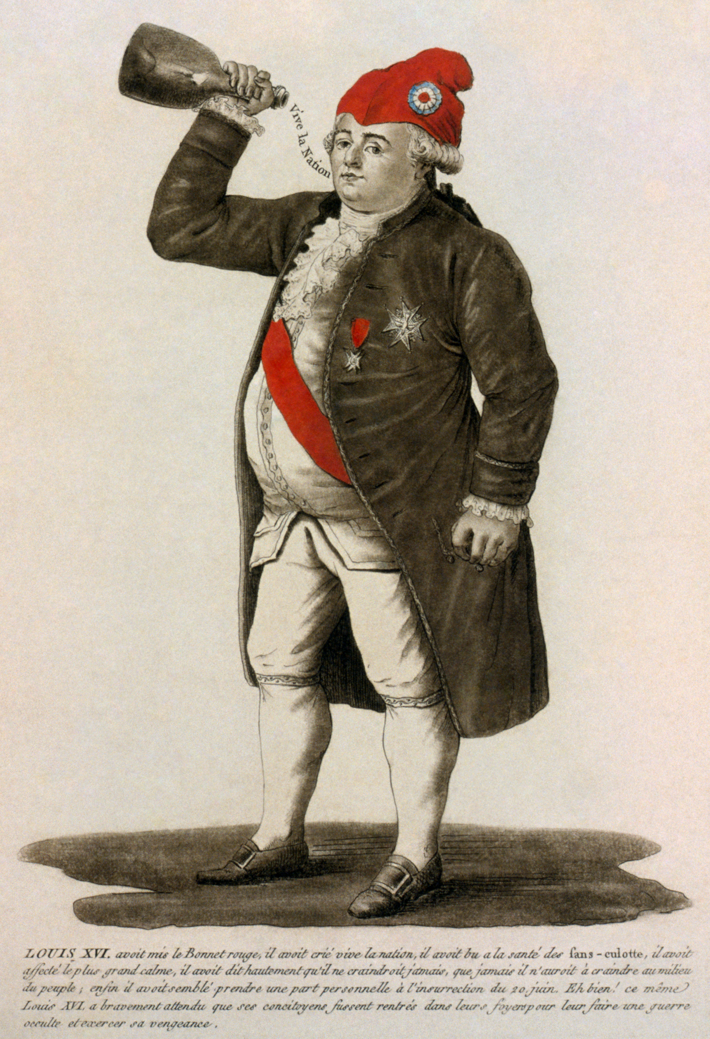 "Long live the nation" (from bottle to mouth) Below: Louis XVI, having put on the Phrygian cap, cried 'long live the nation'. He drank to the health of the sans-culottes and affected a show of great calm. He spoke high-sounding words about how he never feared the law, that he had never feared to be in the midst of the people; finally he pretended to play a personal part in the insurrection of June 20. Well! The same Louis XVI has bravely waited until his fellow citizens return to their hearths to wage a secret war and extract his revenge.